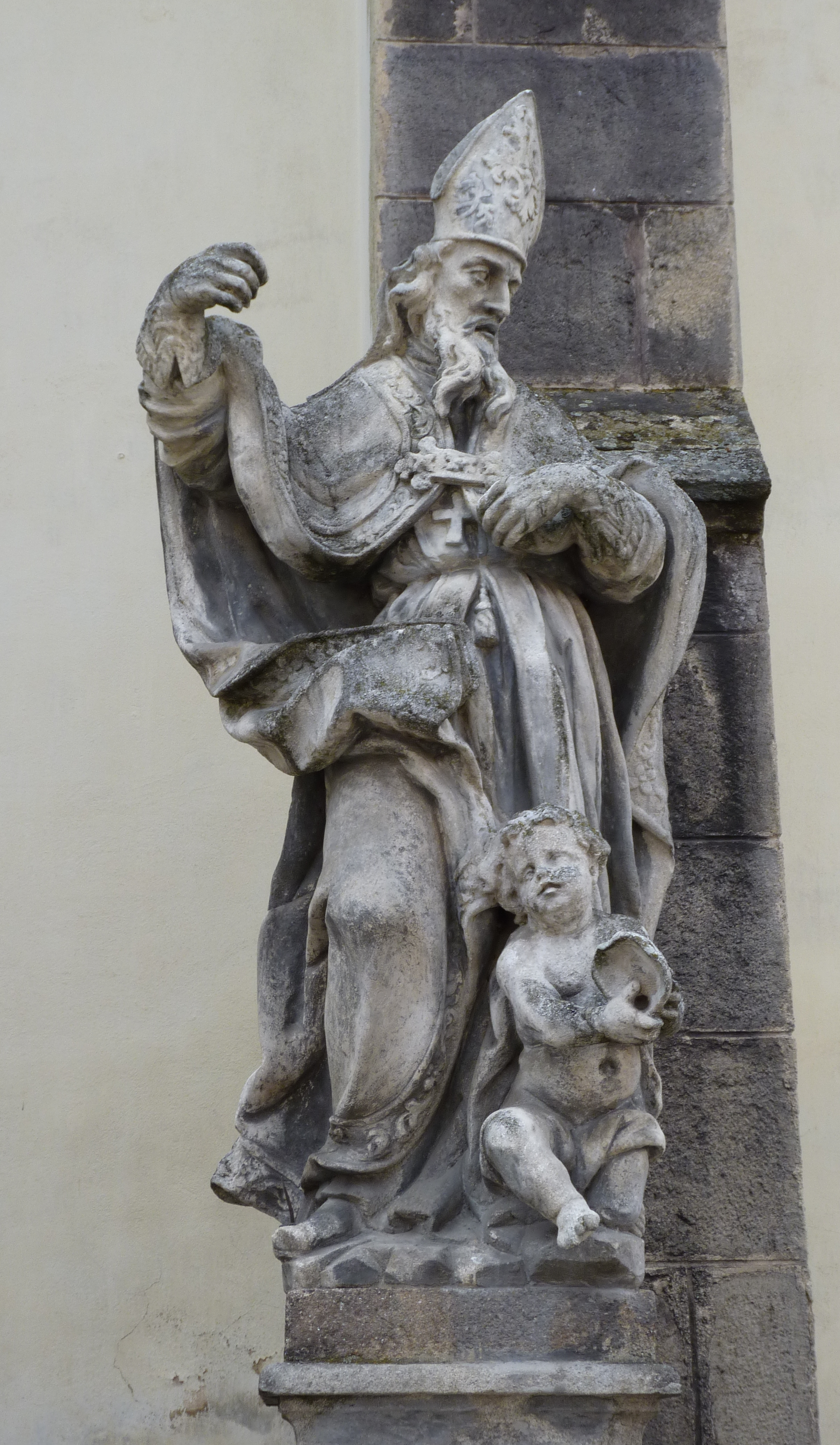 Třeboň. Jindřichův Hradec District, South Bohemian Region, Czech Republic